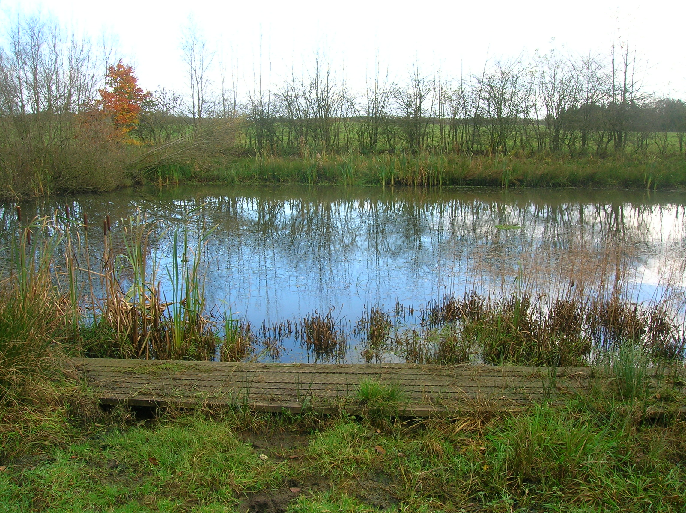 The old fishpond at Eglinton Country Park, Kilwinning, North Ayrshire, Scotland.